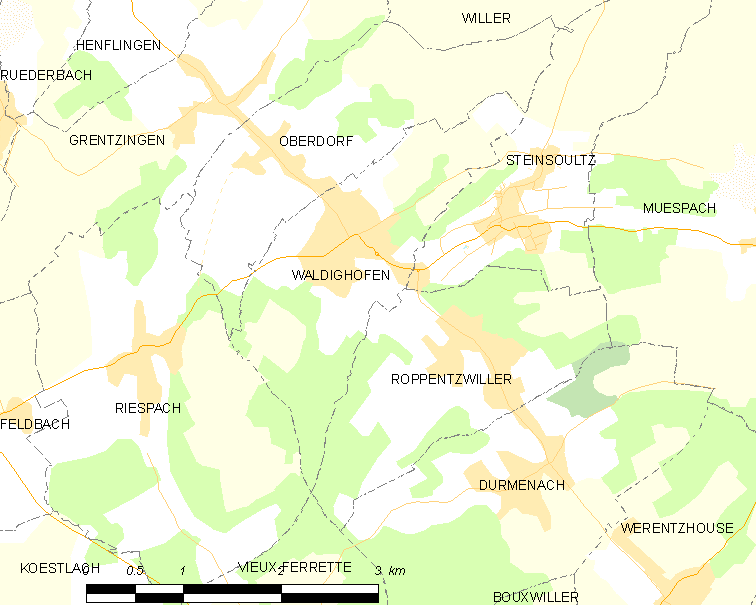 Map of French municipality